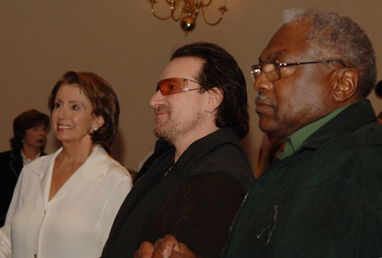 Nancy Pelosi, U2 lead singer Bono, and James E. Clyburn at the House Democratic Caucus Issues Conference in Williamsburg, VA.